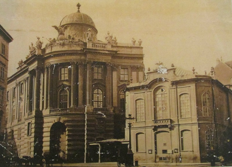 Old photo from Lobkowicz Palace, Vienna.